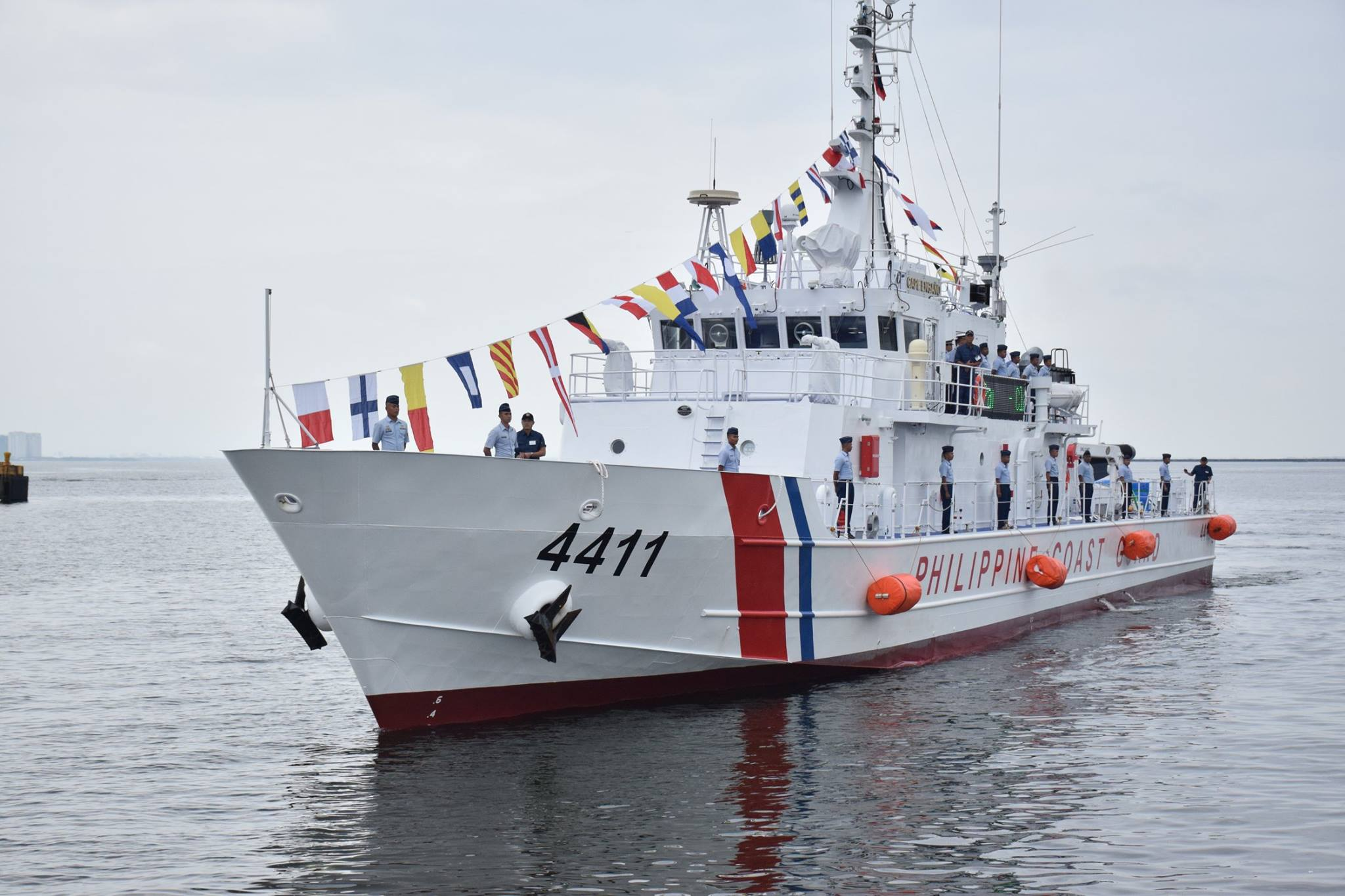 Owned by Philippine Coast Guard and it is public domain. PCG welcomes the last vessel from Japan, BRP Cape Engaño (MRRV-4411)